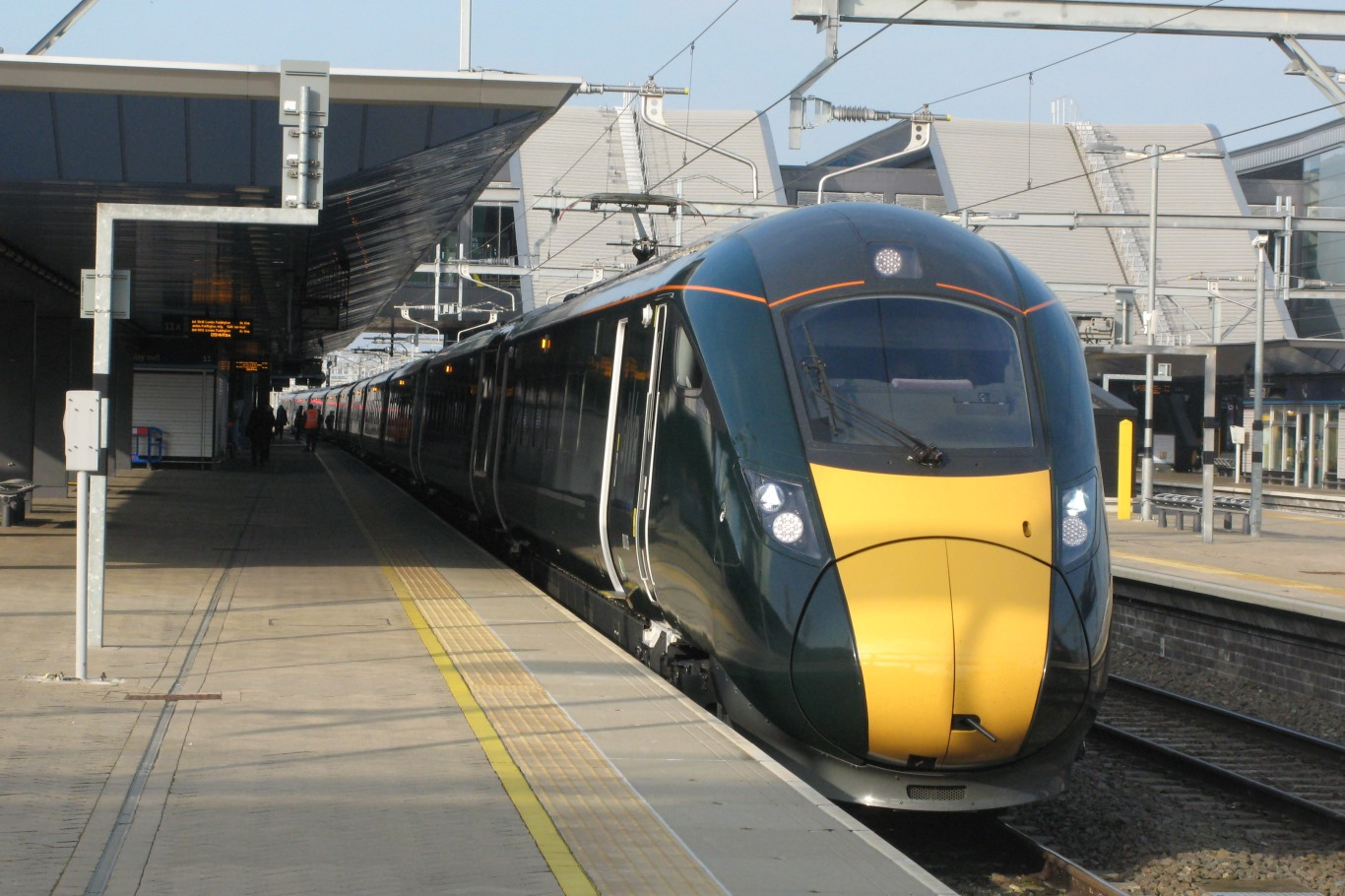 InterCity Electric Trains 800026 and 800024 at Reading with a Great Western Railway service from Taunton to London Paddington via Bristol.